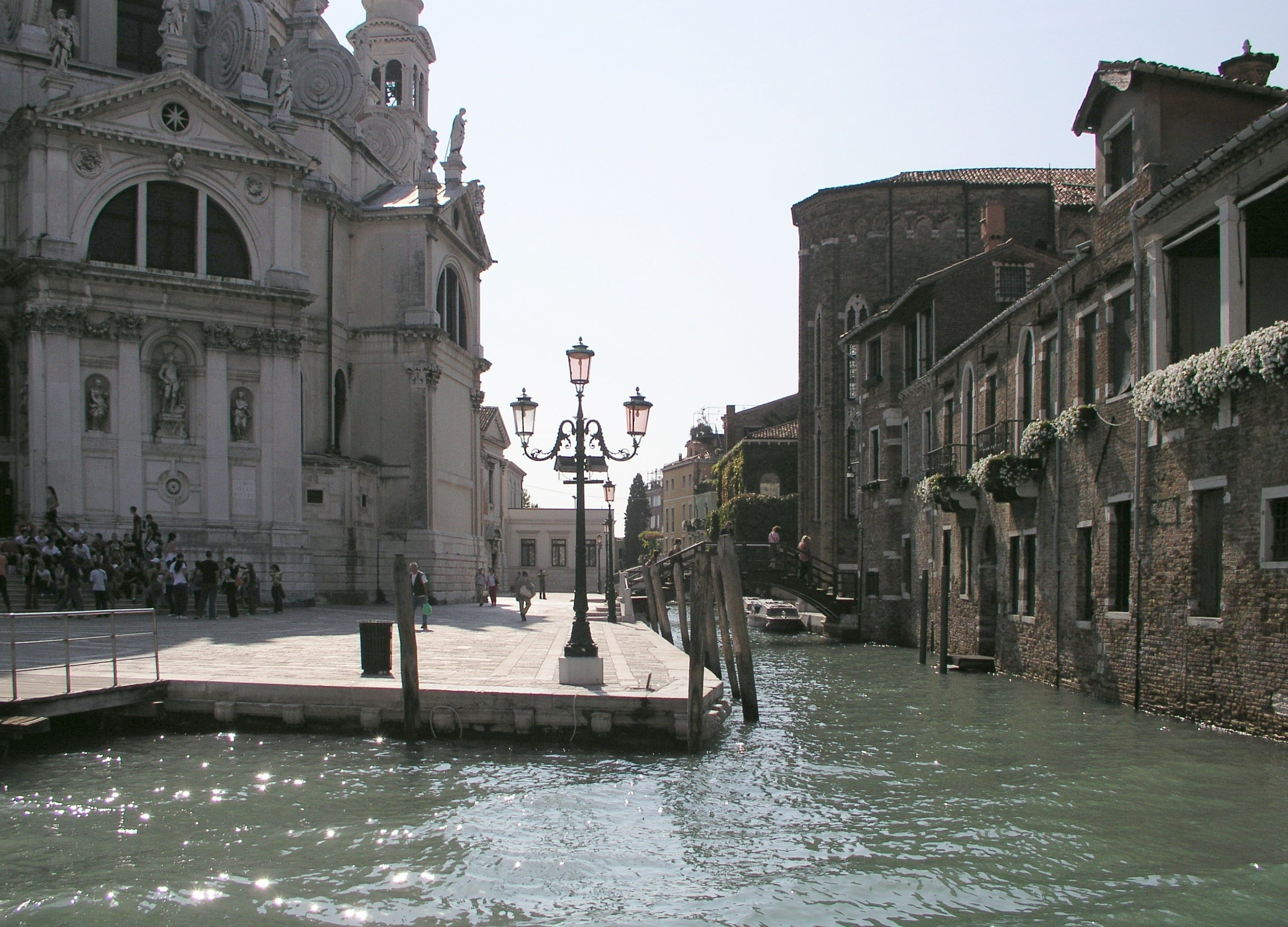 Rio della Salute, Venice (Italy)